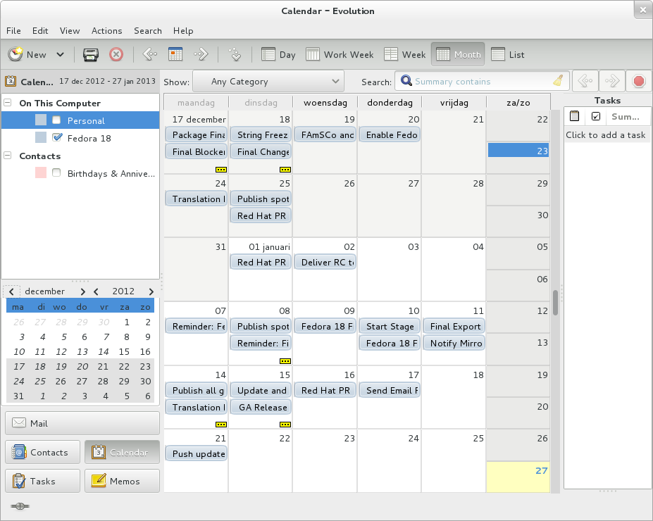 Viewing the calendar in Evolution 3.6.2 on GNOME 3.6.2. The operating system is Fedora 18.